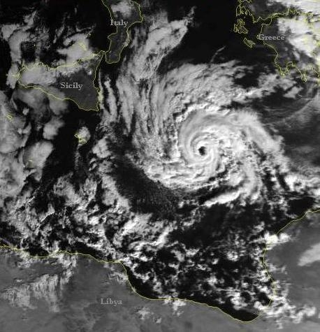 Satellite image of "Medicane" Celeno, a rare Category 1 hurricane-strength Mediterranean tropical cyclone at peak intensity, on January 16, 1995.